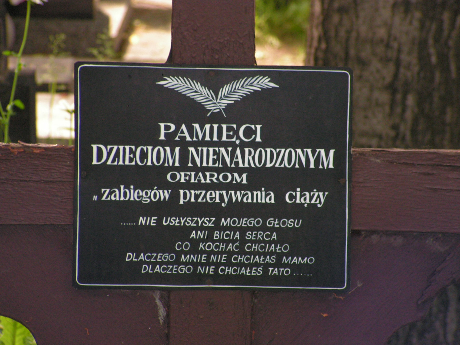 Pro-life memorial in Bytom, Poland. Translation from an edit summary on Abortion debate: "'Dedicated in memory of unborn children – victims of abortion.' The poem says: 'You will not hear my voice and my heart beat. The heart, that wanted to love you. Why didn't you want me mommy, why didn't you want me papa?'"